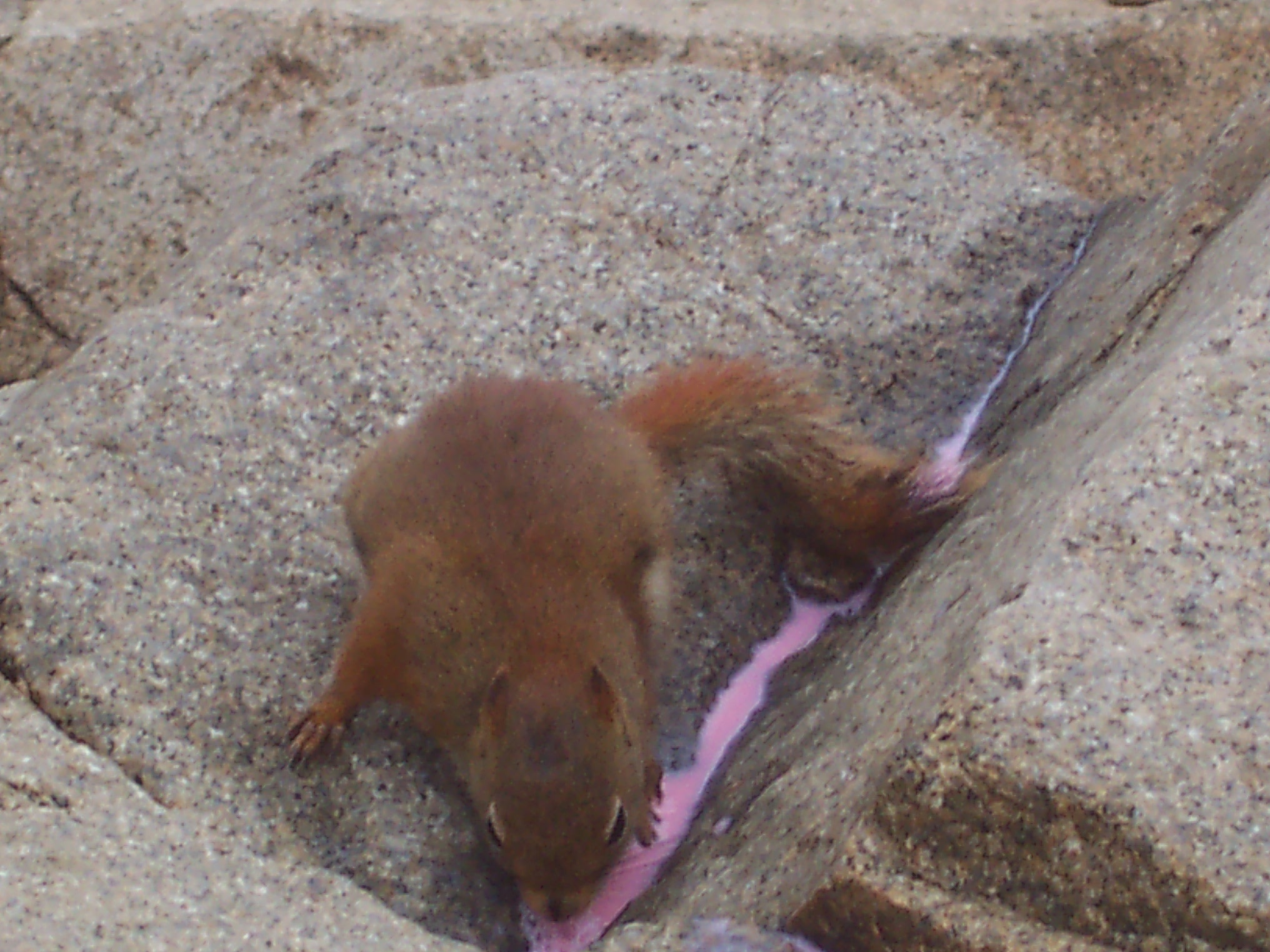 Acadia National Park wildlife enjoying spilled strawberry milk taken July 7, 2005 by User:Michael180 with Kodak EasyShare CX6330.